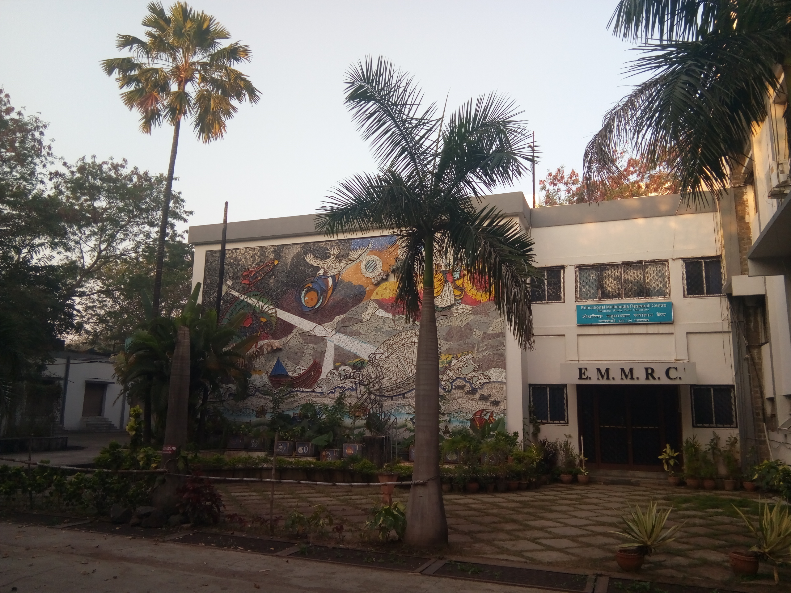 Main building of EMRC